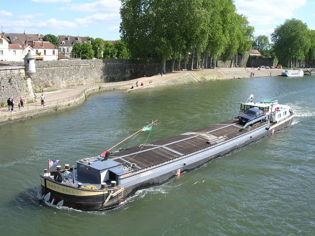 Auxonne, Burgundy, France, La Saône, une péniche devant les remparts